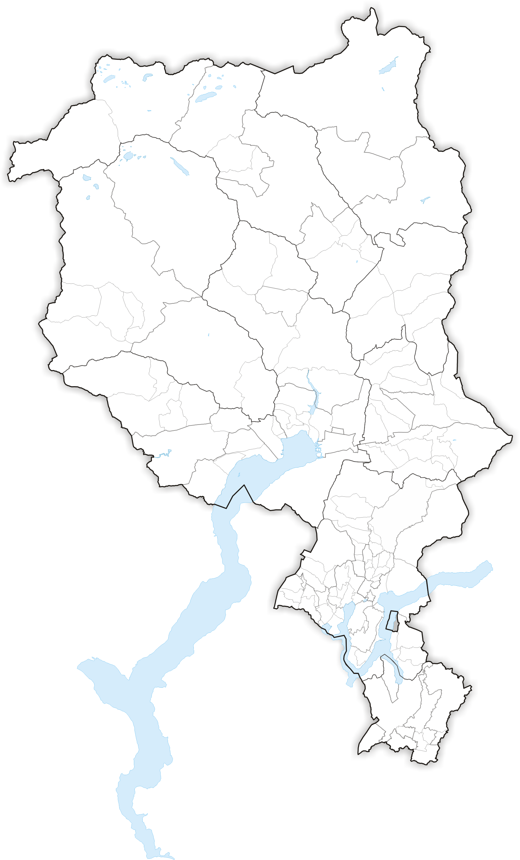 Municipalities in Canton Tessin